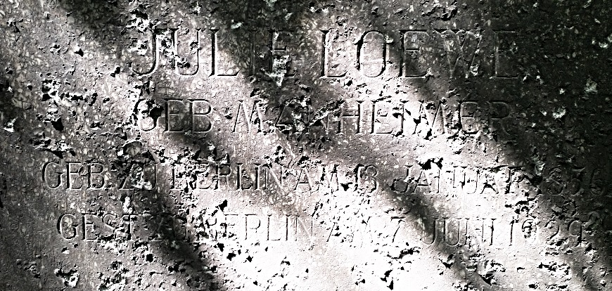 Julie Manheimer was the wife and widow of the Berlin entrepreneur Isidor Loewe